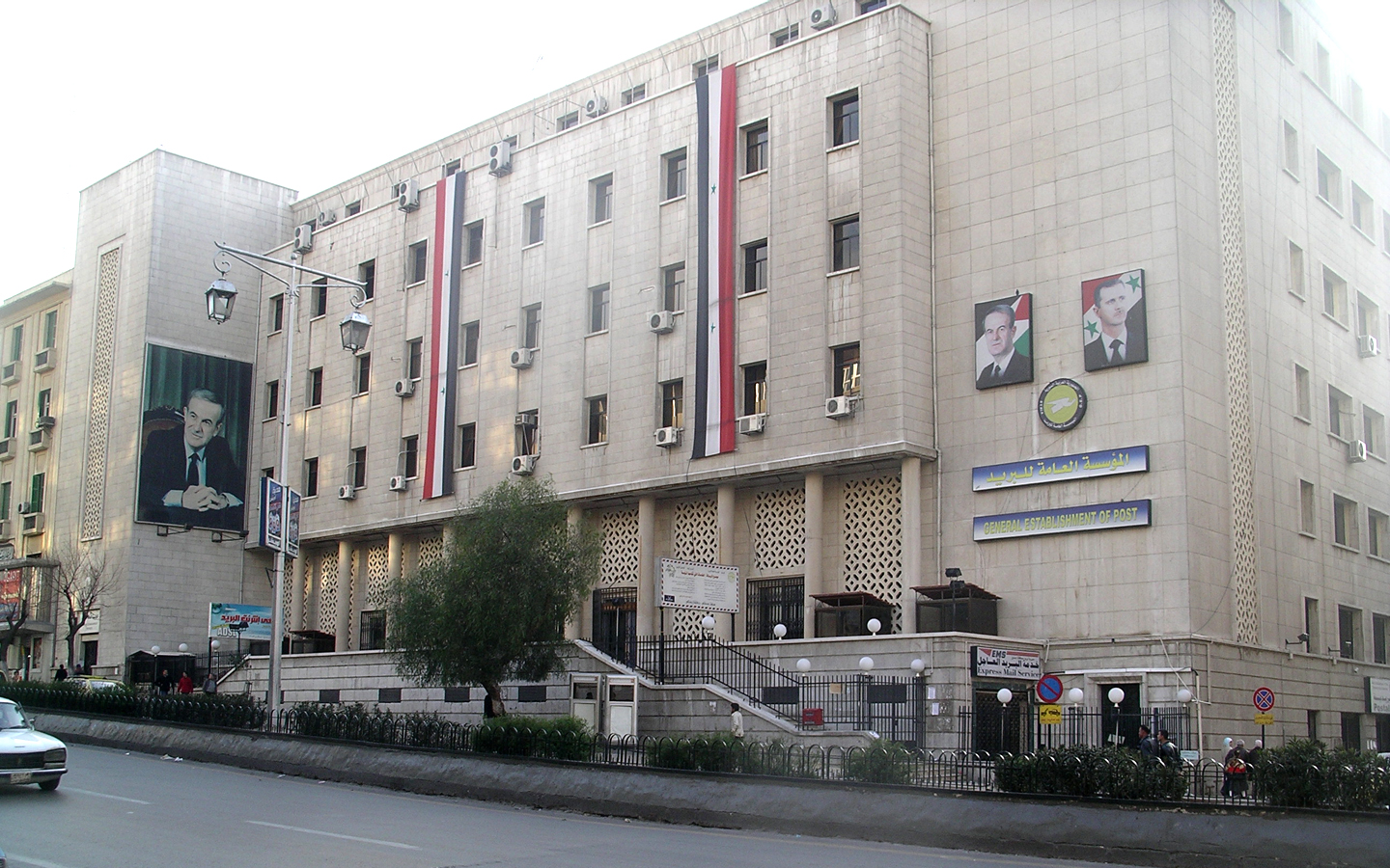 The General Establishment of Post in Damascus, Syria with images of presidents Hafez al-Assad and his son Bashar al-Assad, and the Syrian flag draped on the building.